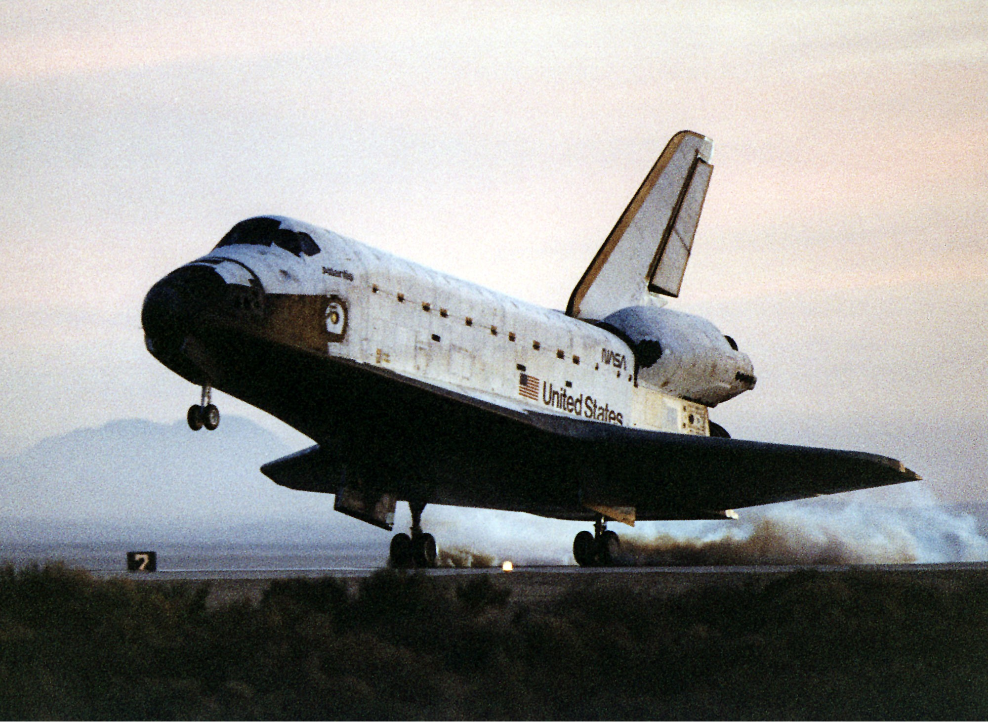 STS-76 Landing - Space Shuttle Atlantis Lands at Edwards Air Force Base